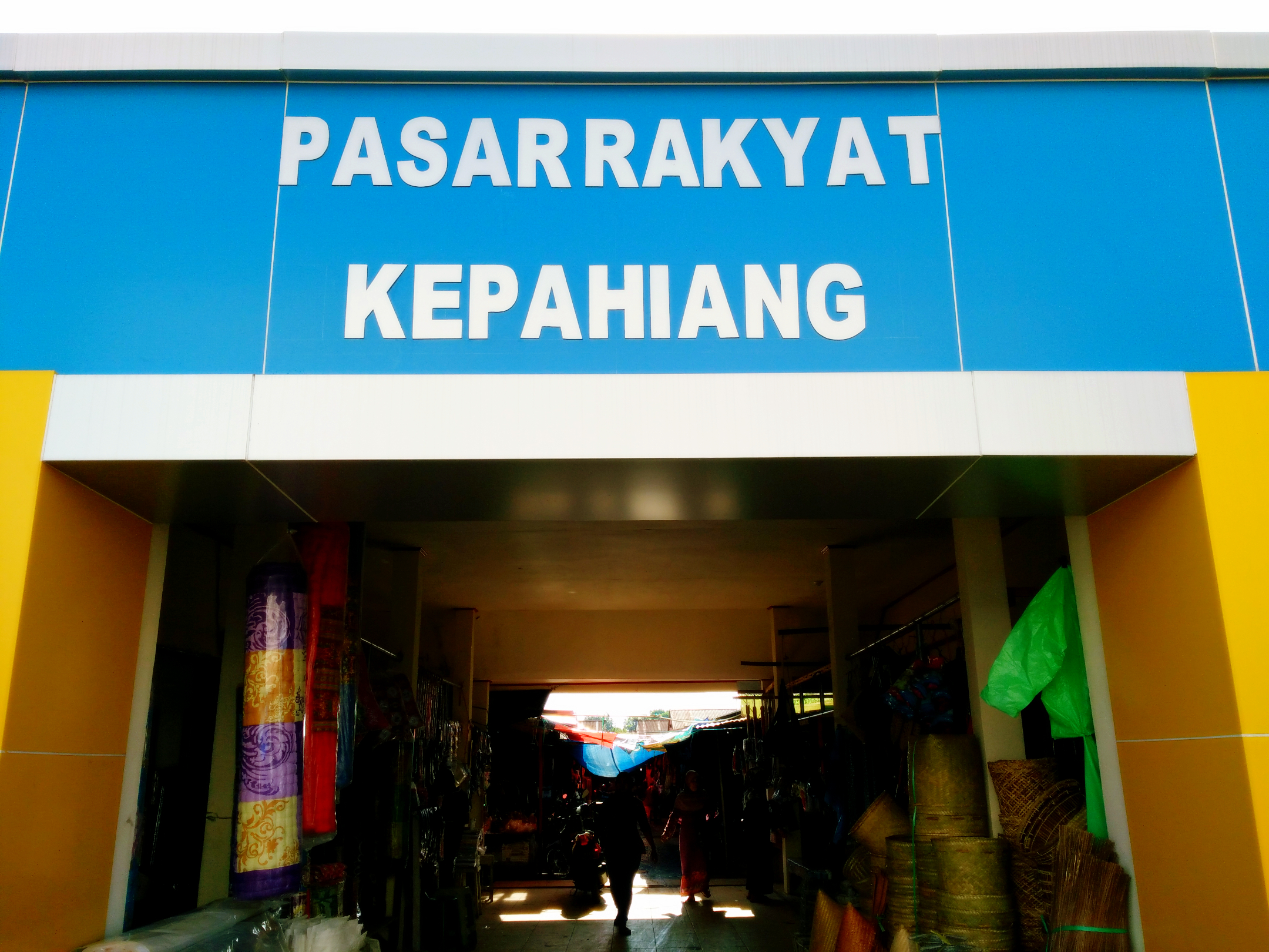 Traditional market in Kepahiang.